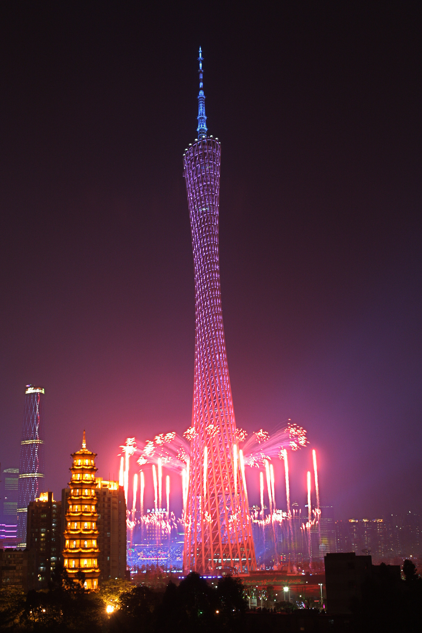 2010 Asian Games opening ceremony fireworks from Canton Tower